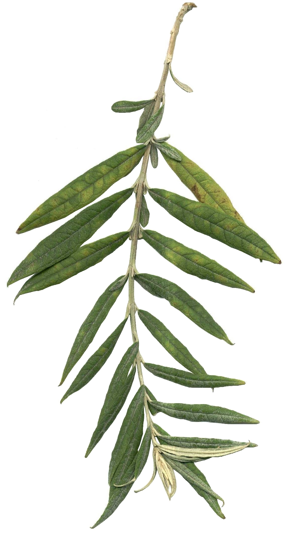 Foliage on the drooping twig of a False olive, from a tree in Faerie Glen Nature Reserve